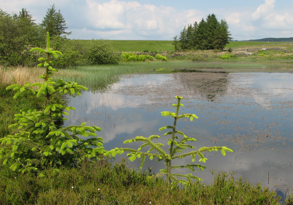 The Gryfe Reservoir (which one??) Clyde Muirshiel Regional Park. Scotland.